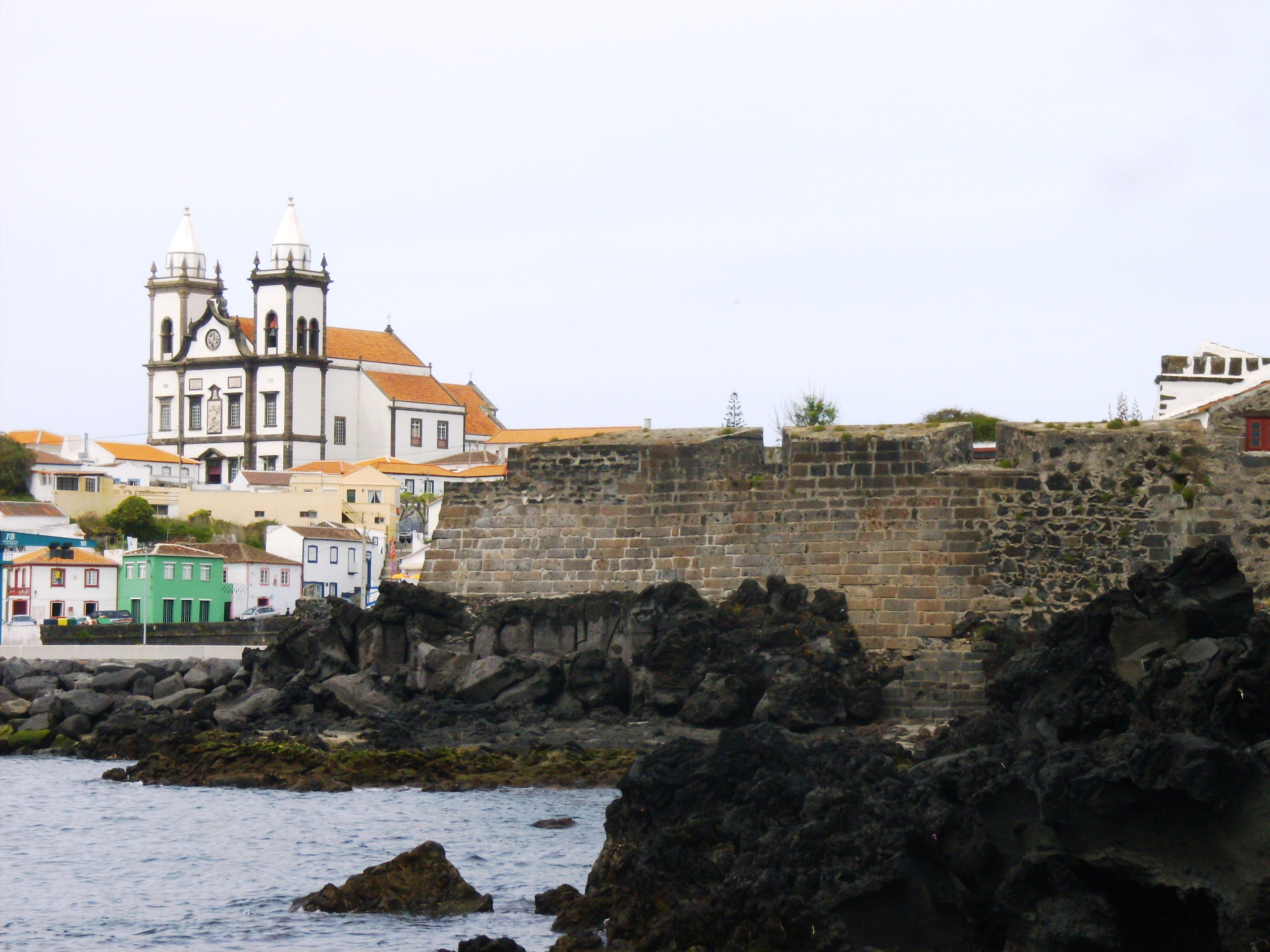 The walls of the Forte Grande de São Mateus and the parochial Church of São Mateus, São Mateus da Calheta, Angra do Heroísmo, Terceira (Azores), Portugal